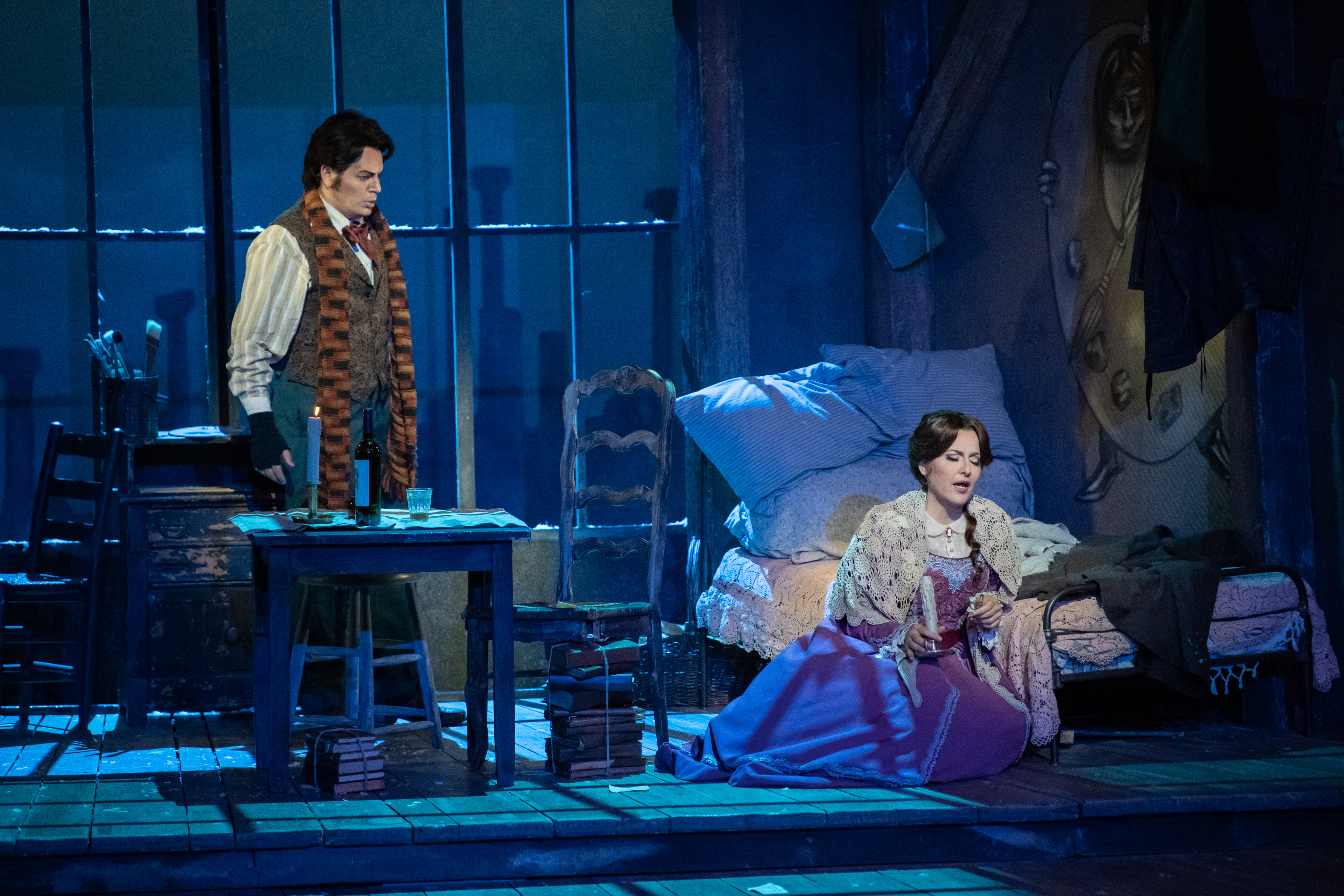 Photo by Chris Kakol